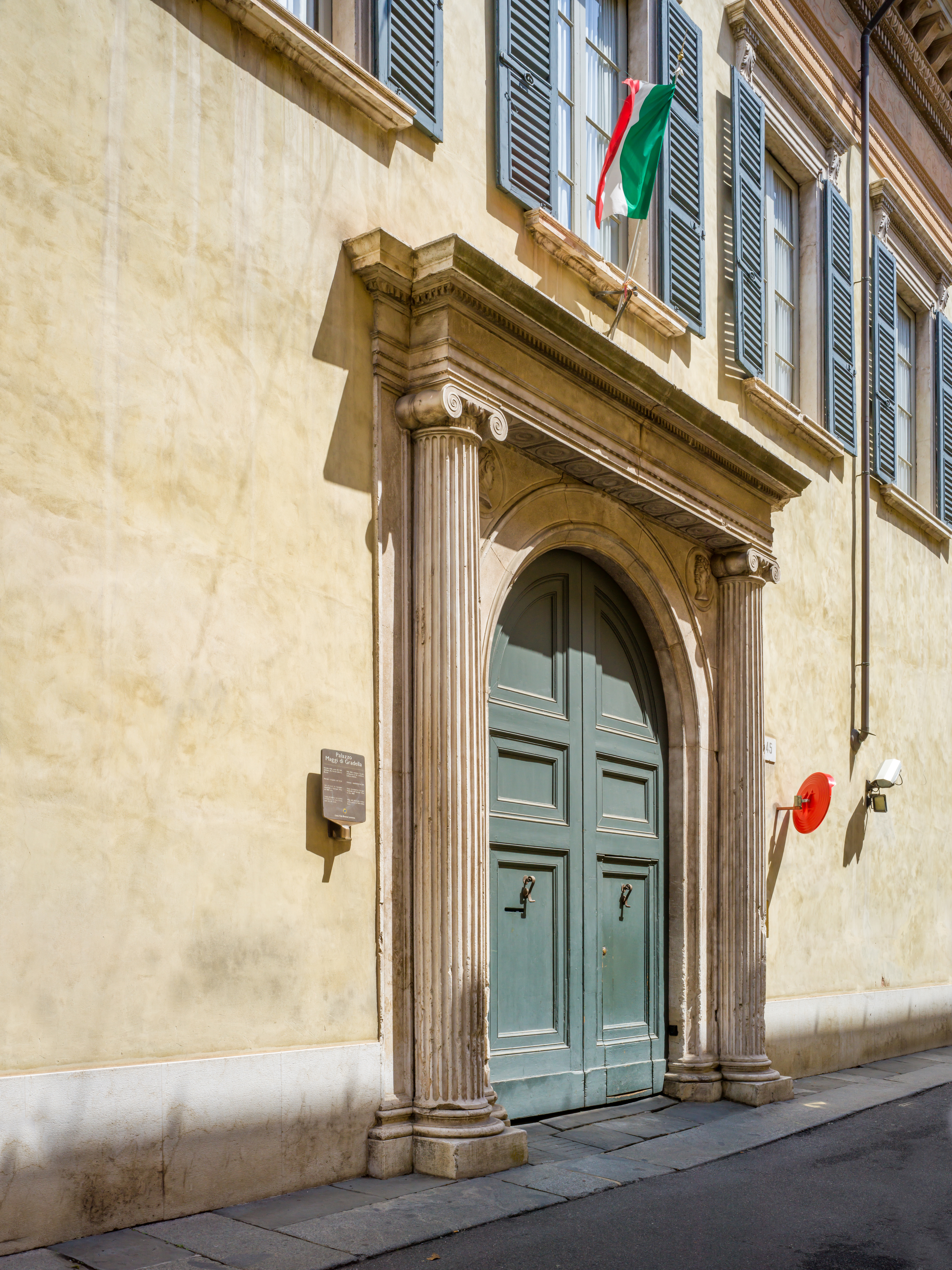 Portal of Palazzo Maggi di Gradella in Brescia.